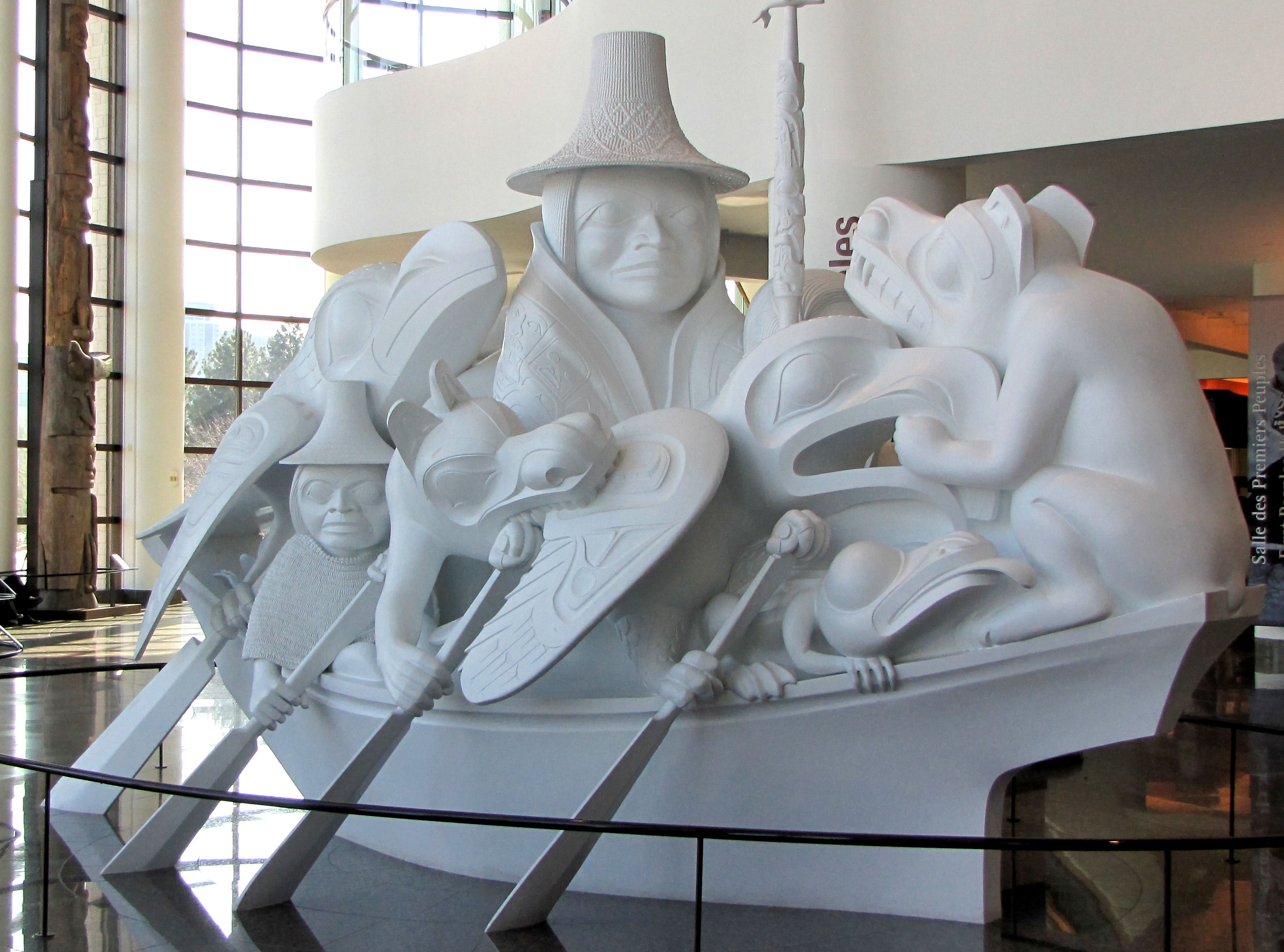 Spirit of Haida Gwaii, plaster original, by Bill Reid, Canadian Museum of Civilization, Gatineau, Quebec